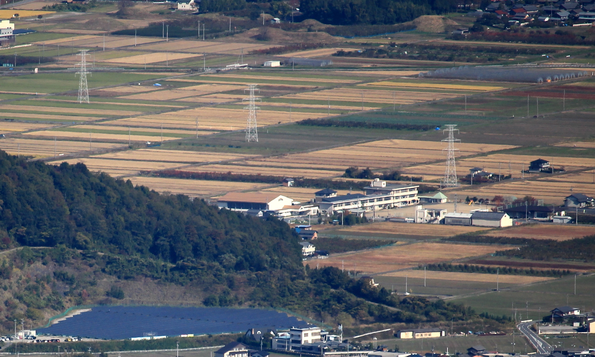 Nishi elementary school seen from Mount Ikeda, in Ōno, Gifu prefecture, Japan.